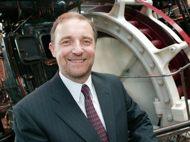 Prof. Stephen E. Donnelly